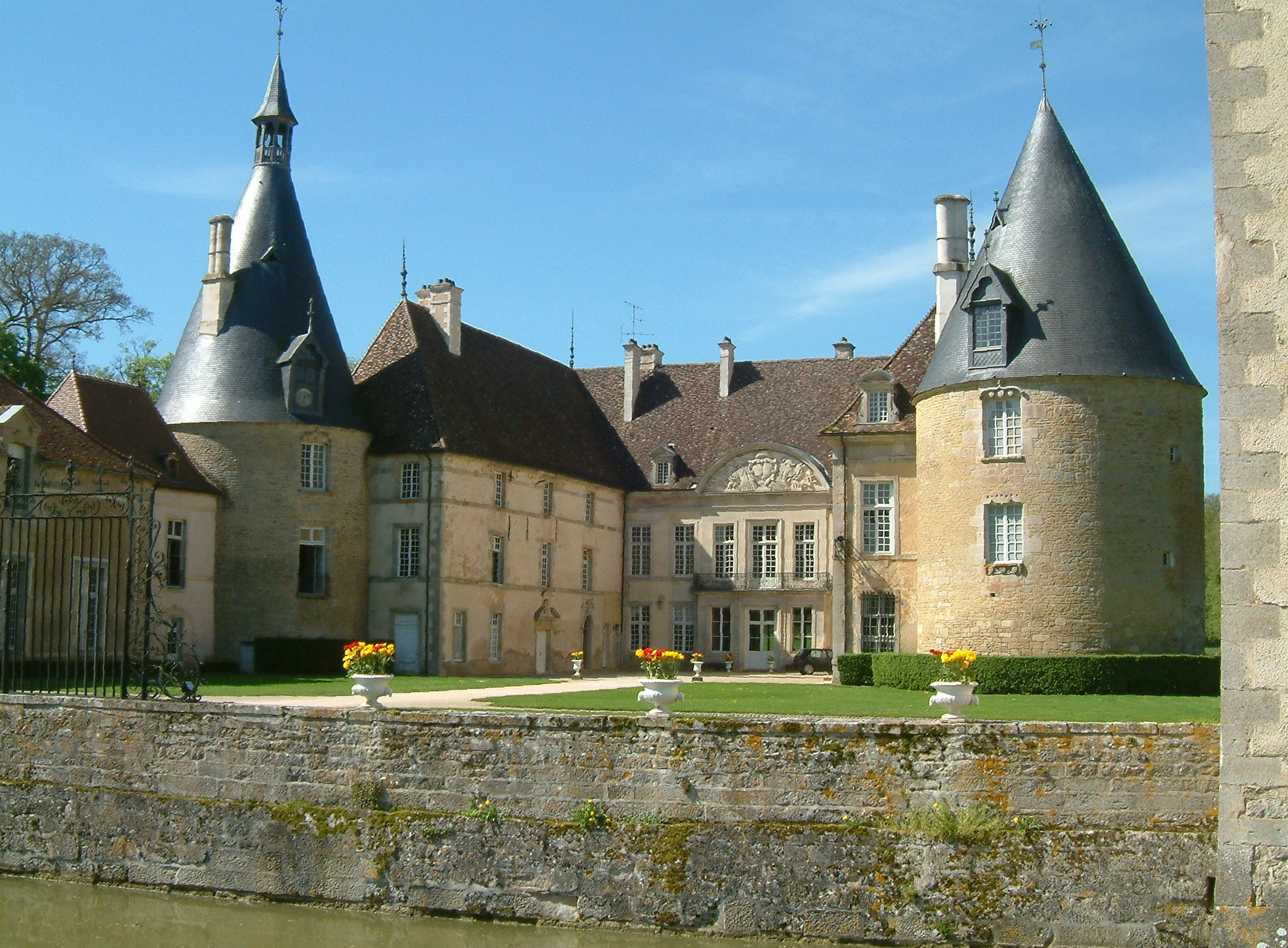 Castle of Commarin, Commarin, Côte-d'Or, Burgundy, France